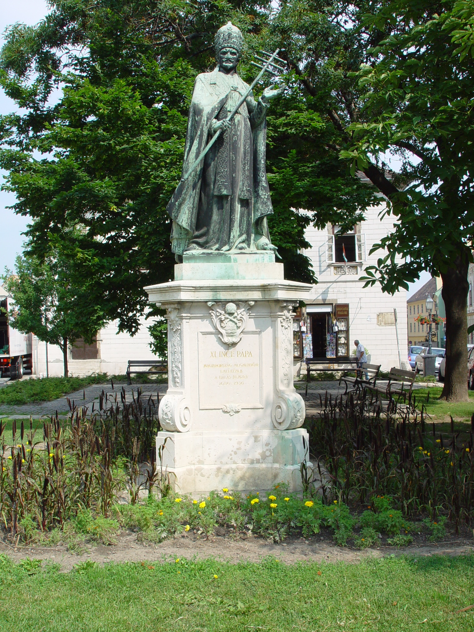 Statue of Pope Innocent XI in Budapest. Sculptor: József Damkó (1936)